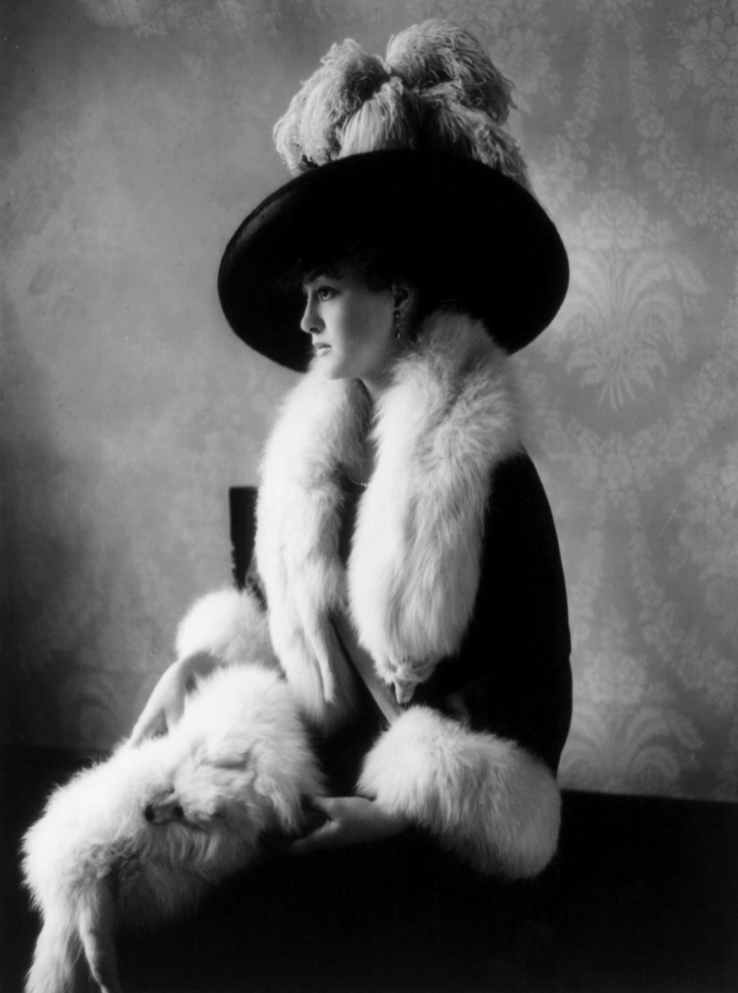 Louise Cromwell Brooks MacArthur Atwill Heiberg, three-quarter length portrait, seated, facing left, wearing fox furs. No photographer given, ca. 1911. And yes, MacArthur is that MacArthur. From the U.S. Library of Congress. [PD] This picture is in the public domain.